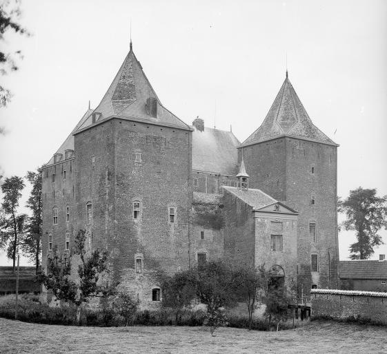 Castle Loevestein in 1911 before its restoration